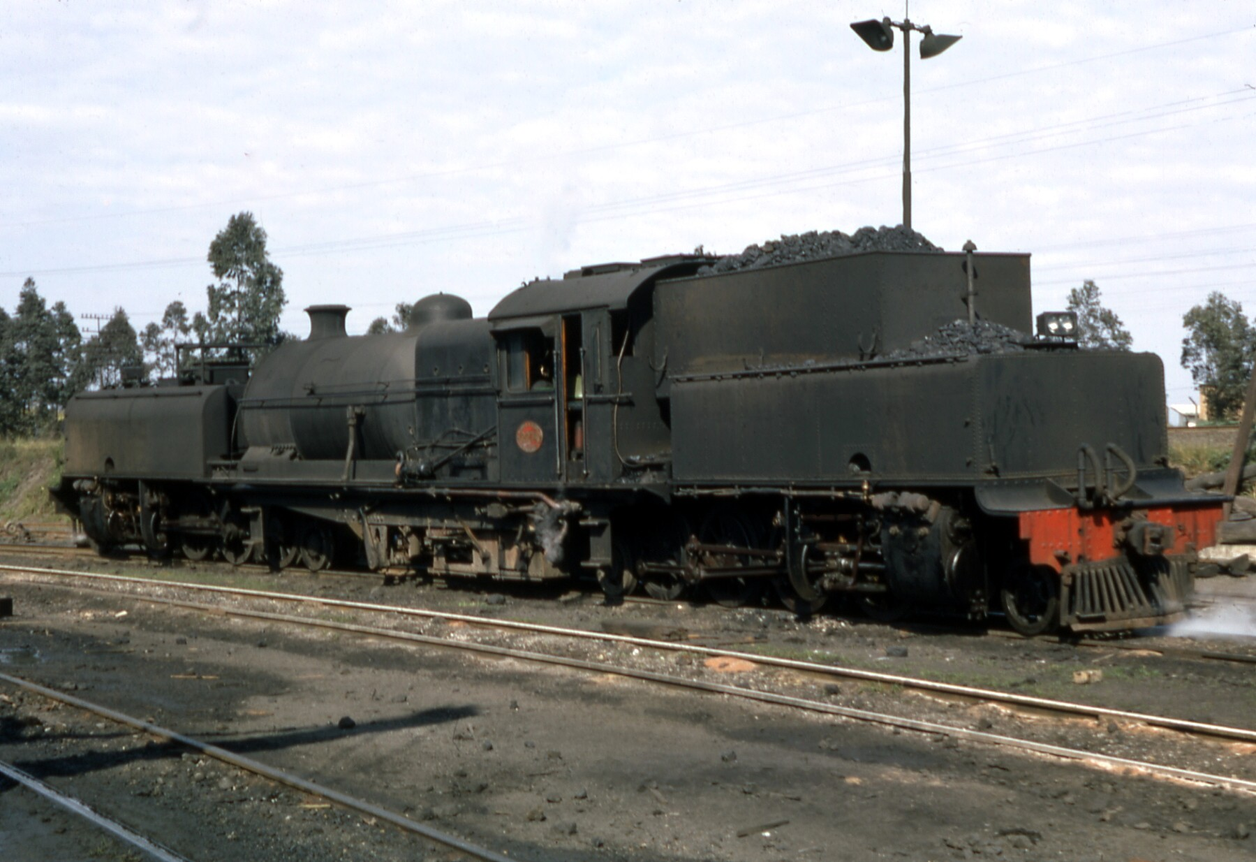 Class GE no. 2274 at Stanger Shed